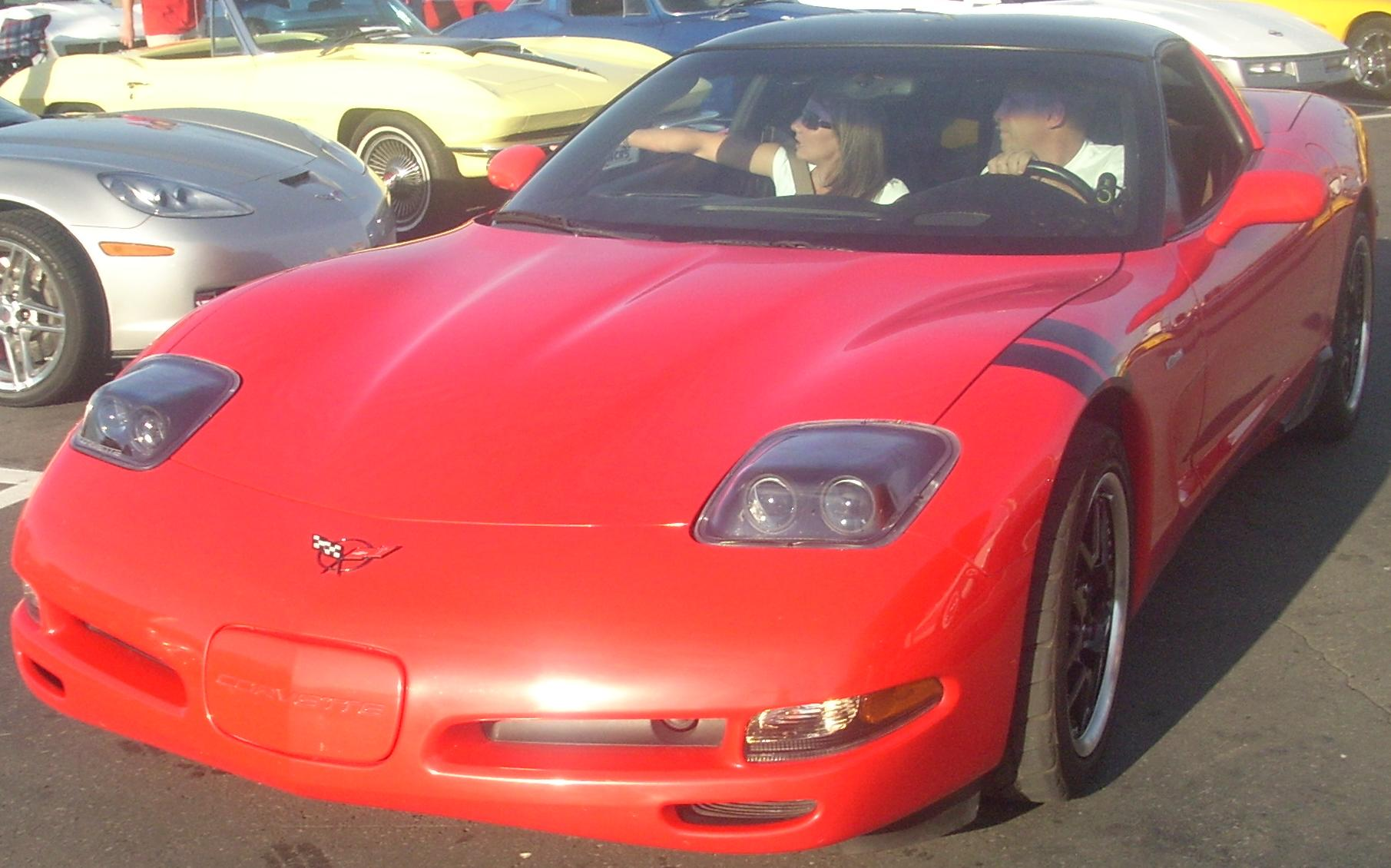 Chevrolet Corvette photographed in Montreal, Quebec, Canada at Gibeau Orange Julep.